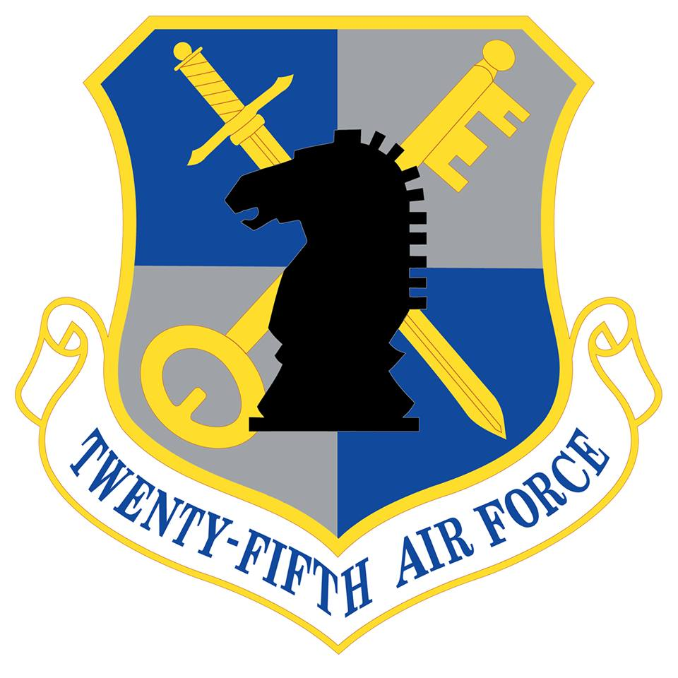 Shield of the 25th Air Force, United States Air Force